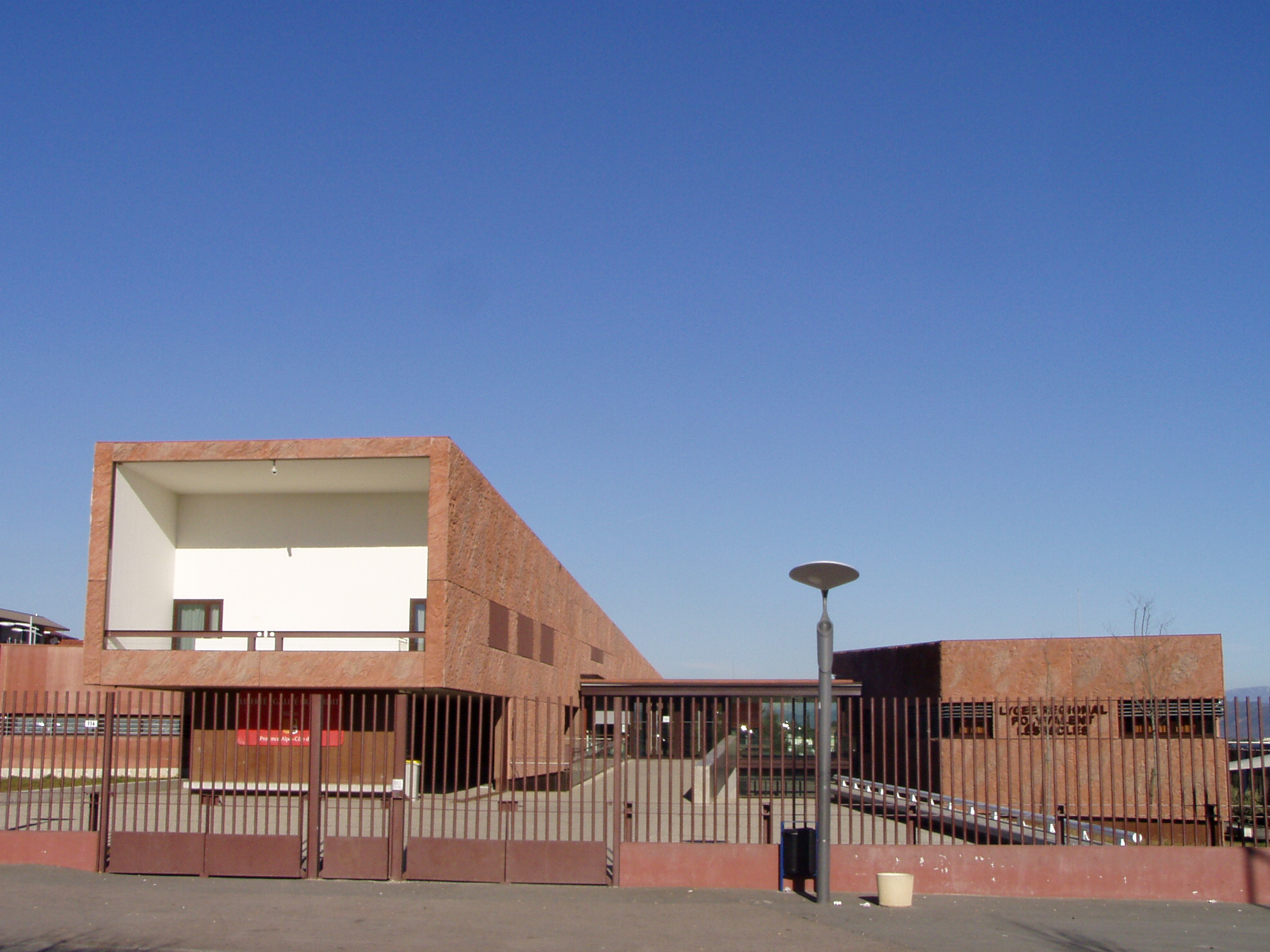 The high school of Iscles of Manosque